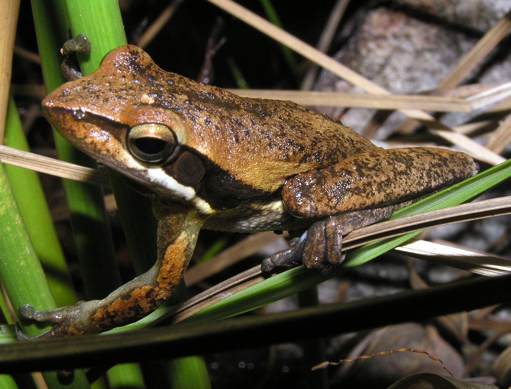 A Slender Tree Frog (Litoria adelaidensis) from Western Australia.